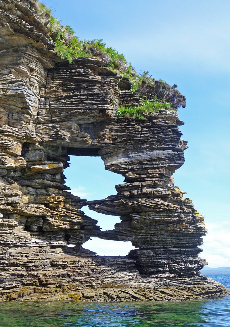 Perforated headland below Glasnakille. A remarkable feature on a remarkable section of coastline. Just south of Spar Cave, right below Dun Grugaig, is this beautifully eroded headland of Jurassic sandstone. near to Glasnakille, Highland, Great Britain.